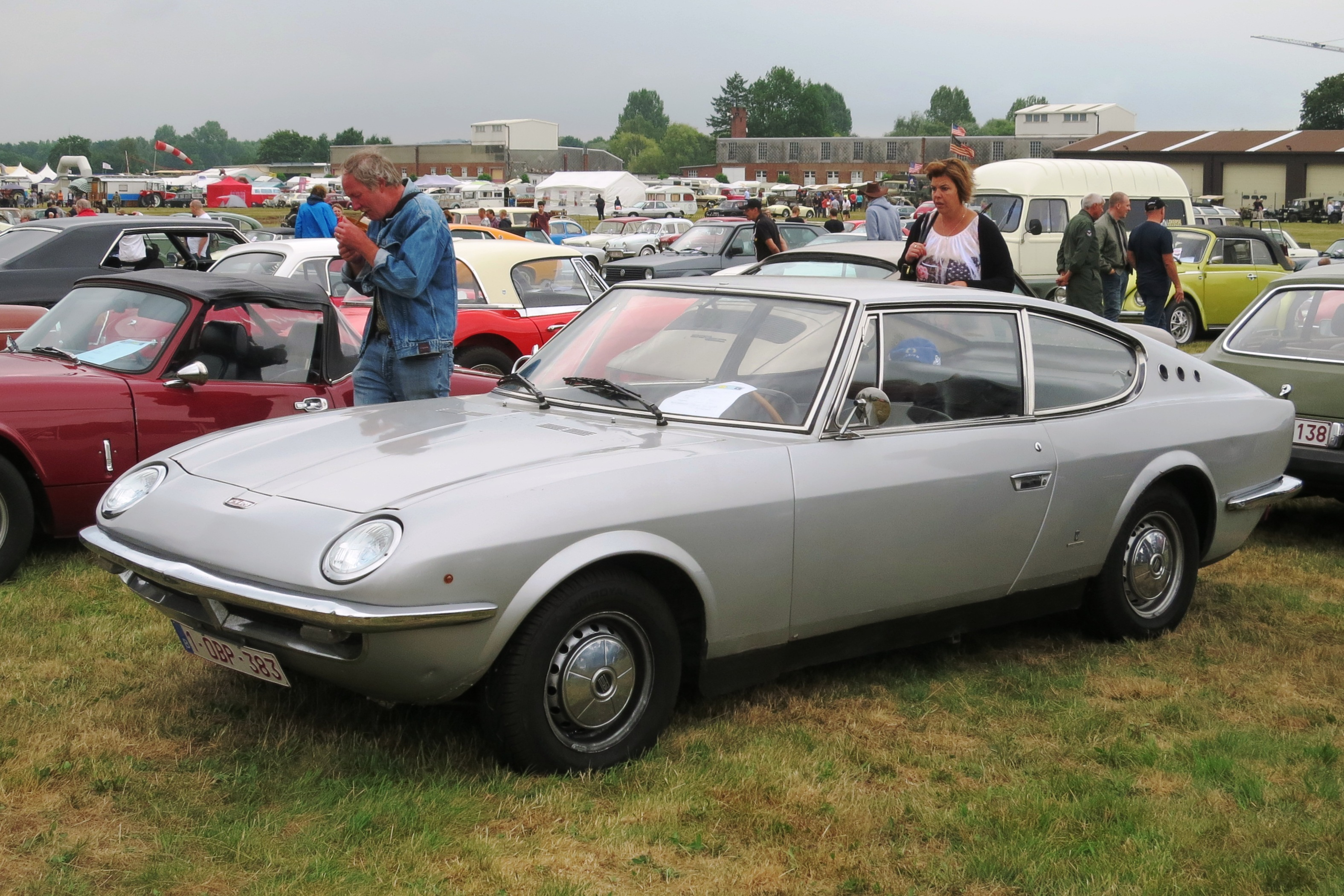 Fiat 125S Vignale bodied